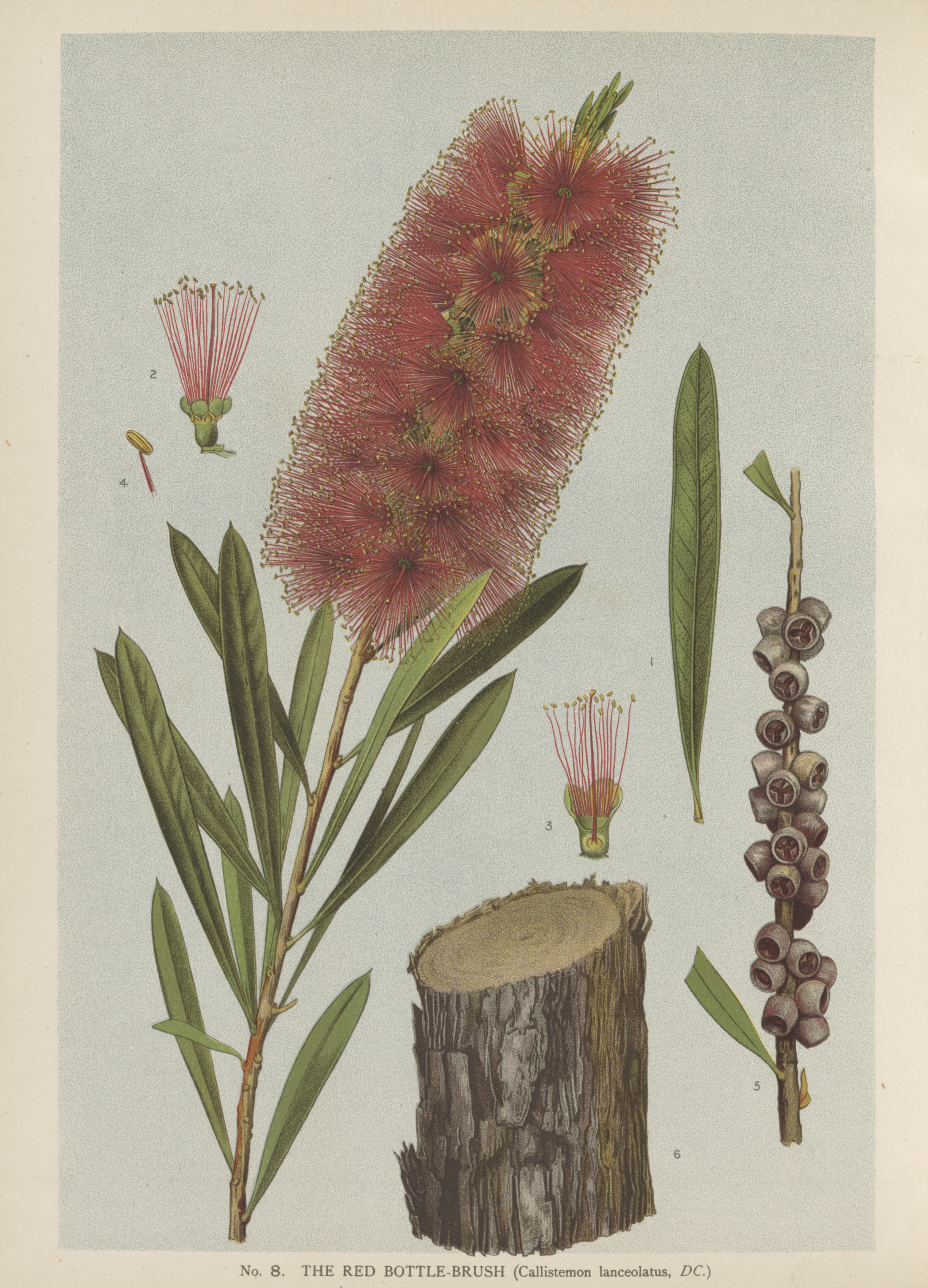 Callistemon lanceolatus (older name) (Common Red Bottlebrush) From: The Flowering Plants and Ferns of New South Wales - Part 2 (1895) by J H Maiden. NSW Government Printing Office.